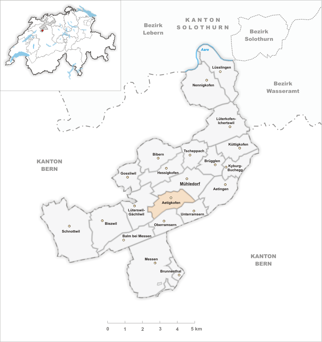 Municipality Aetigkofen